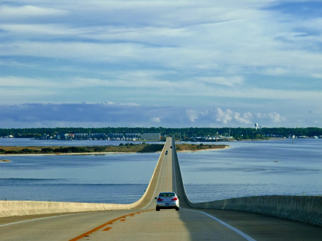 Dauphin Island Bridge, Mobile